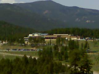 Conifer High School taken by Camera Phone.